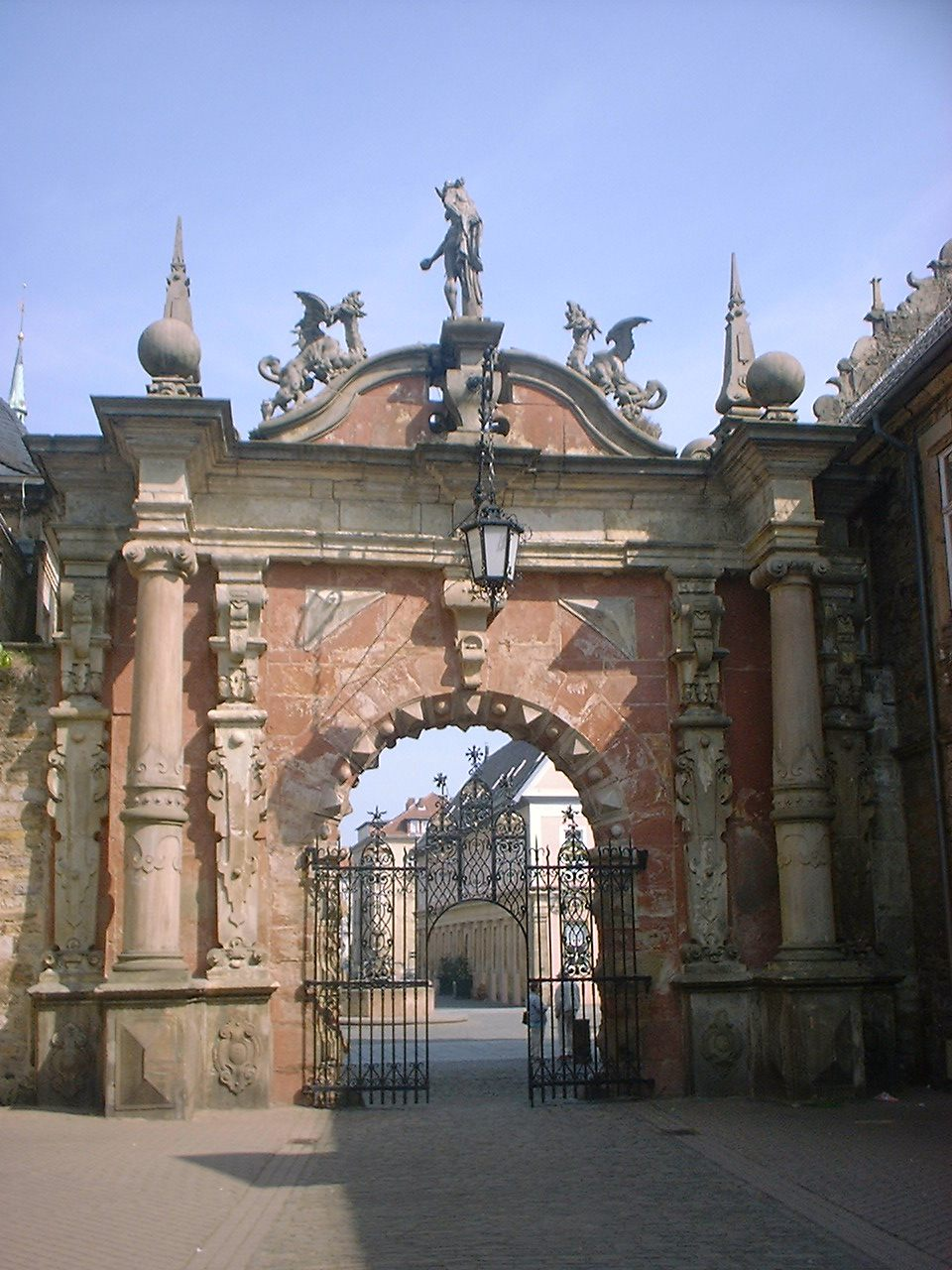 Portal of Bückeburg Palace in Bückeburg in Lower Saxony, Germany